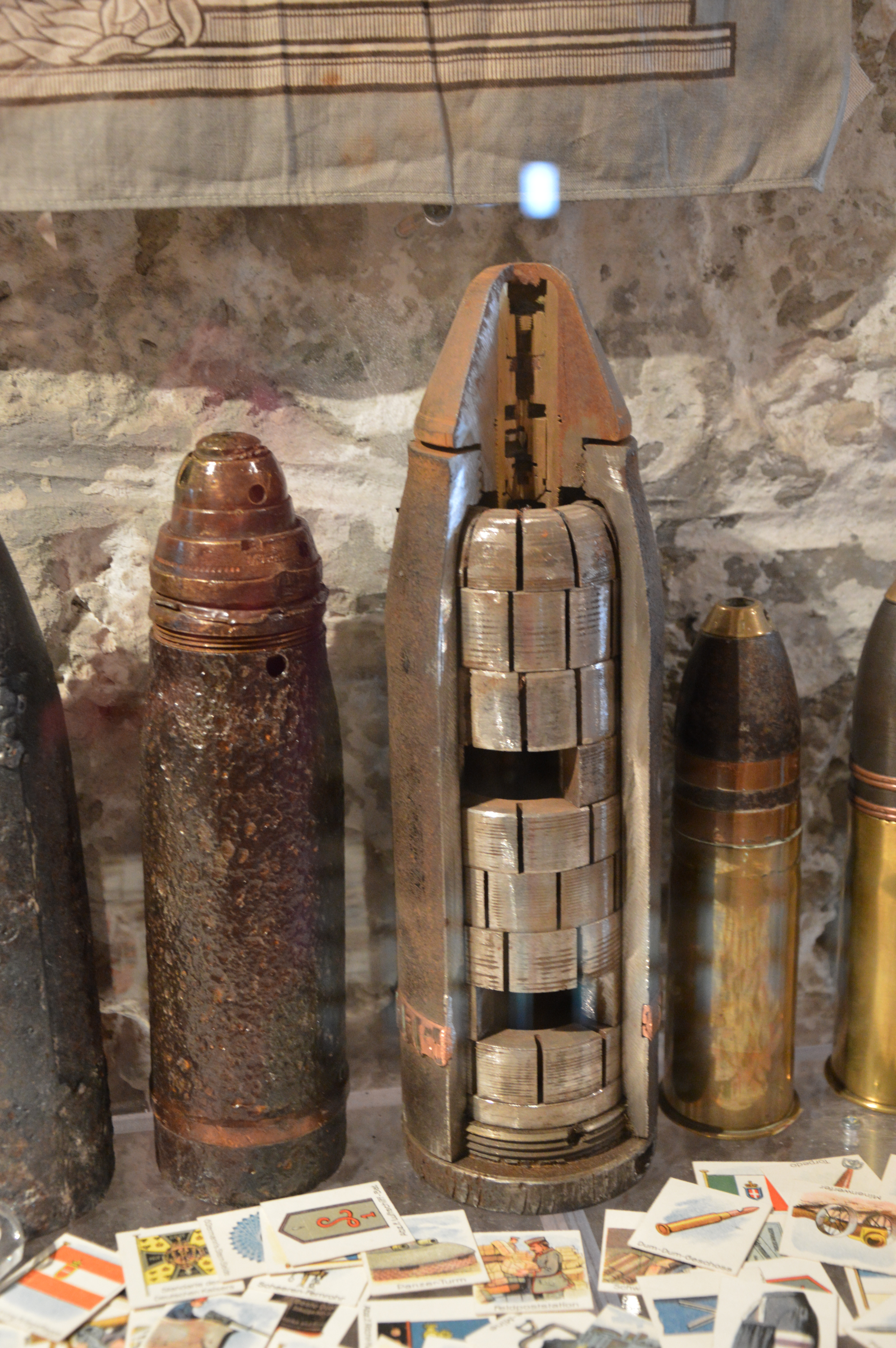 Shrapnel Grenades. Used in WWI, taken at the Tre Sassi museum at Passo di Valparola (Belluno)